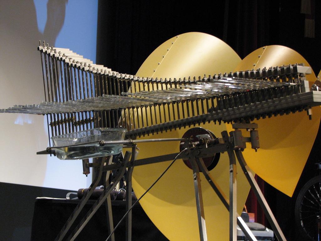 The player rubs the horizontal glass bars, which vibrate the vertical piano strings, which are amplified through the crazy looking speaker cones. Bizarre to look at, but beautiful to listen to.